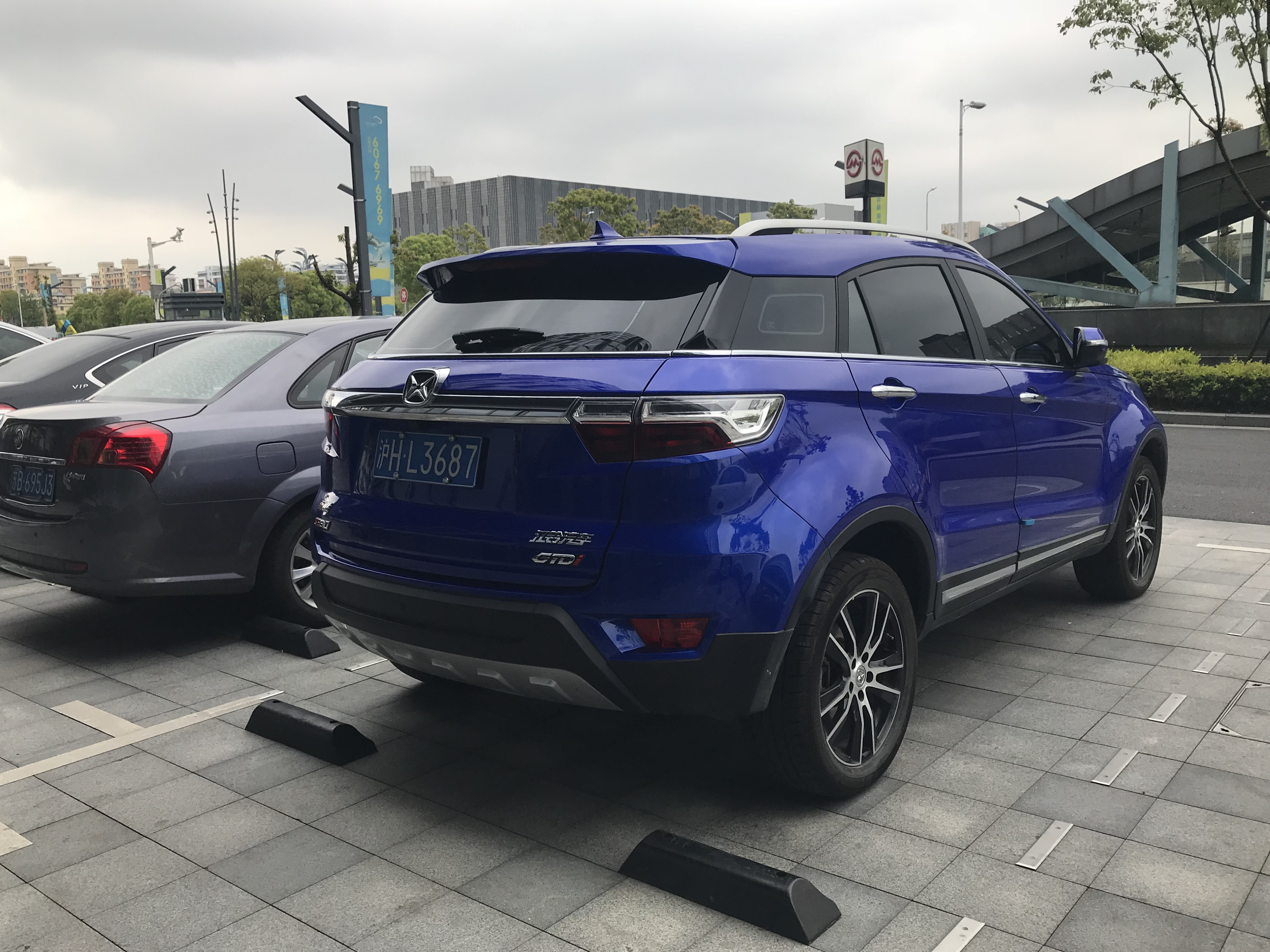 Yusheng S330